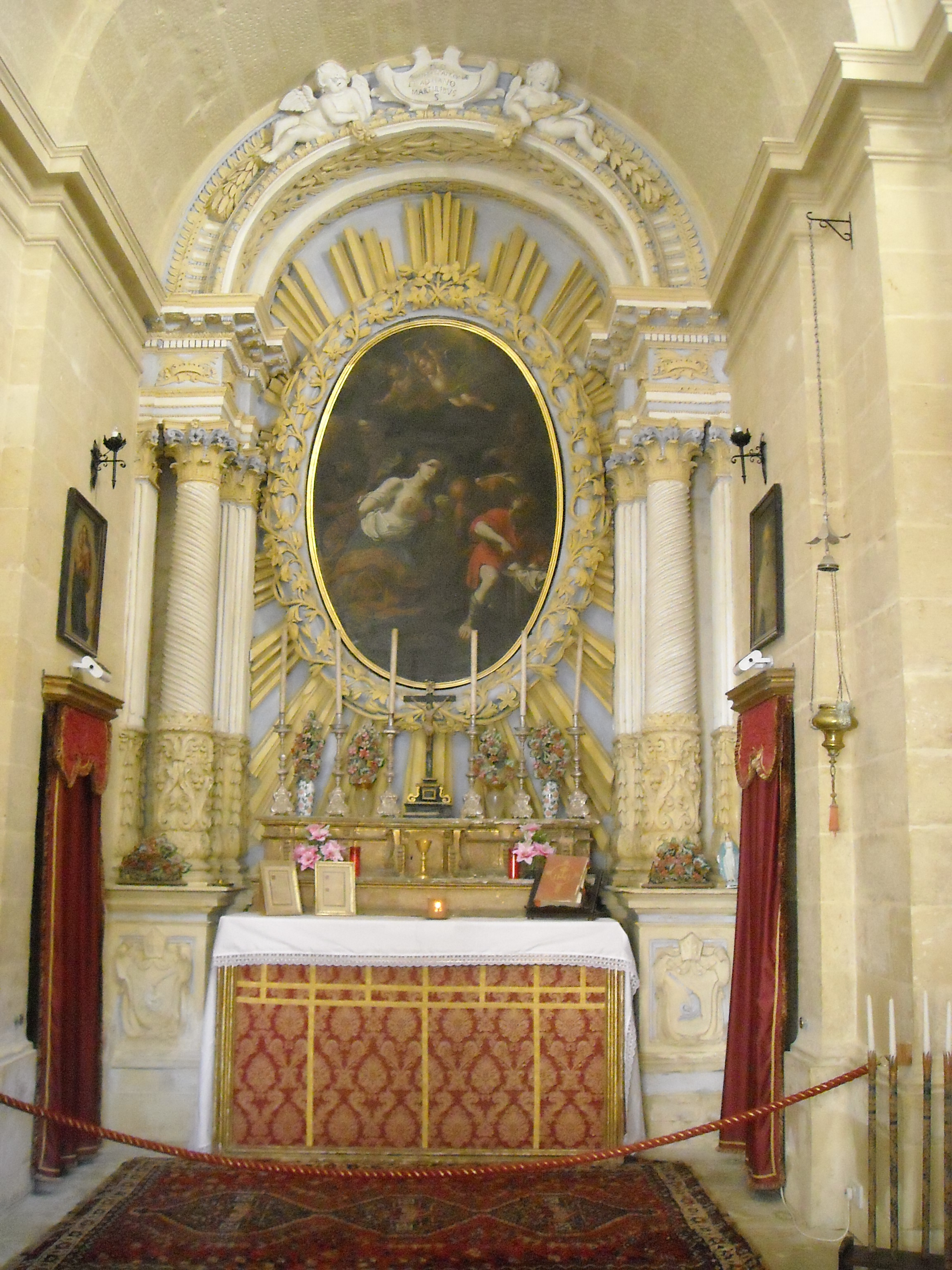 Inside view of St. Agatha's chapel, Mdina, Malta